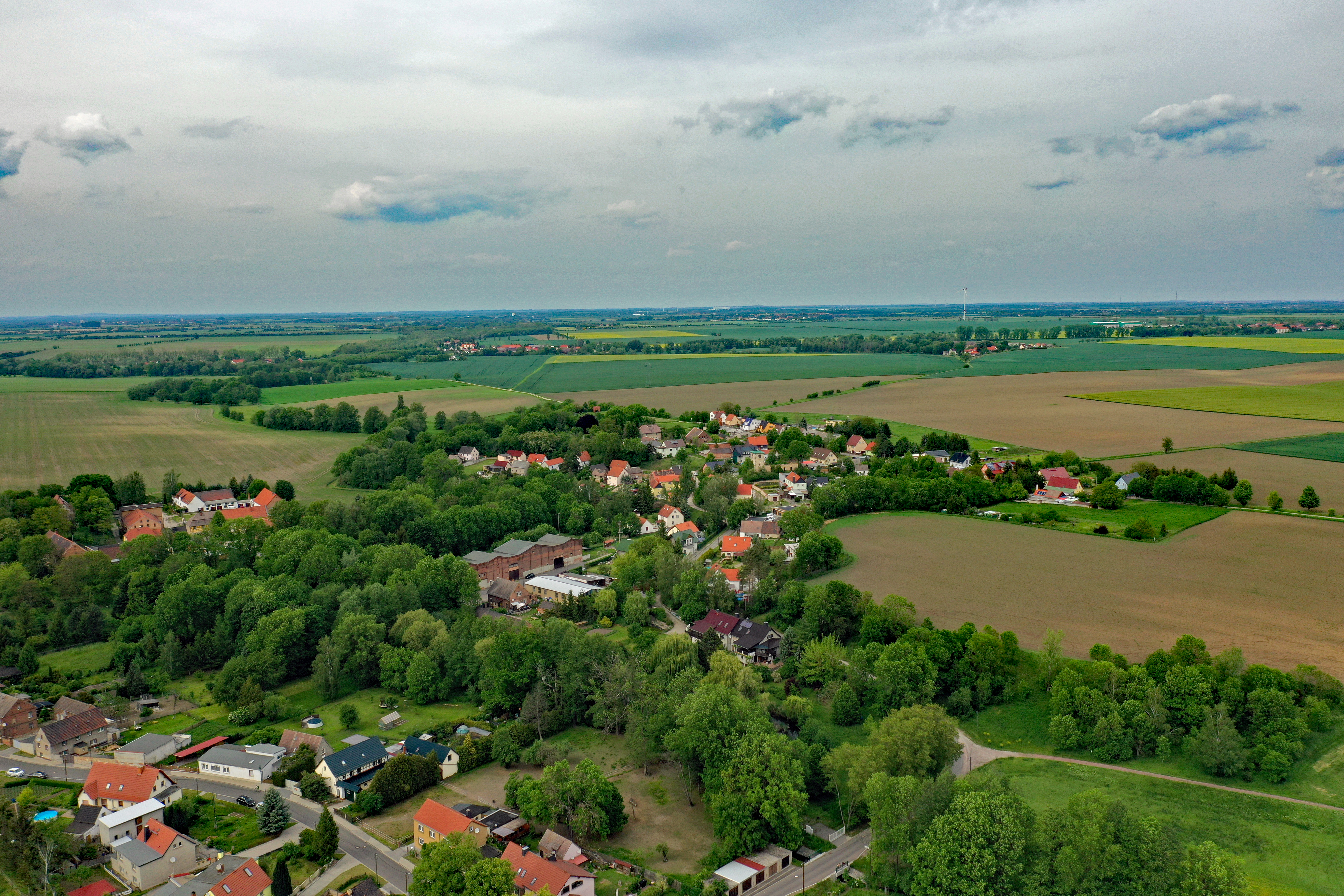 Pobles (Lützen, Saxony-Anhalt, Germany)